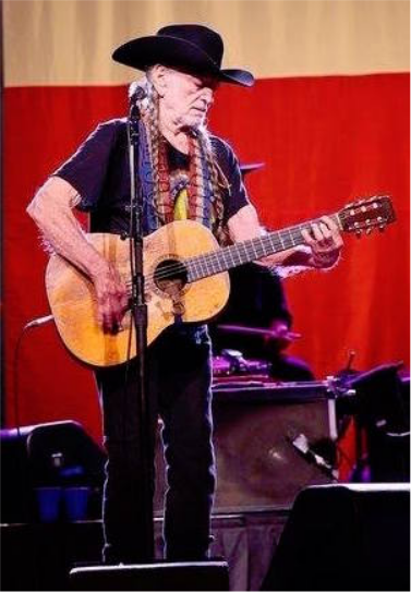 Willie Nelson performing in Topeka, Kansas on August 2, 2016.